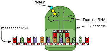 A diagram of RNA being translated into amino acids